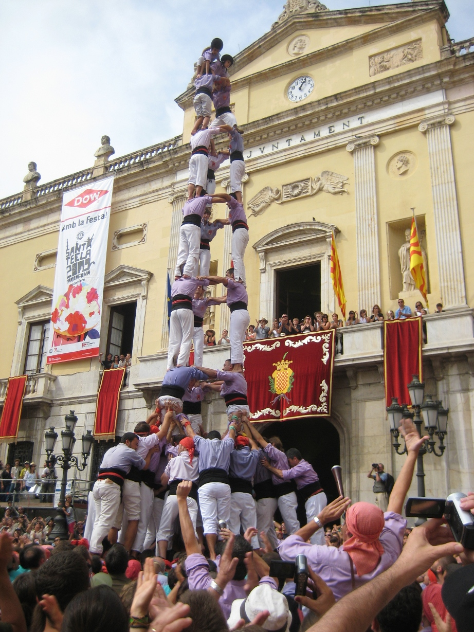 Human Piramid (3 by 9 levels) by Colla Jove del Xiquets Tarragona during the Santa Tecla 2009 Festival.